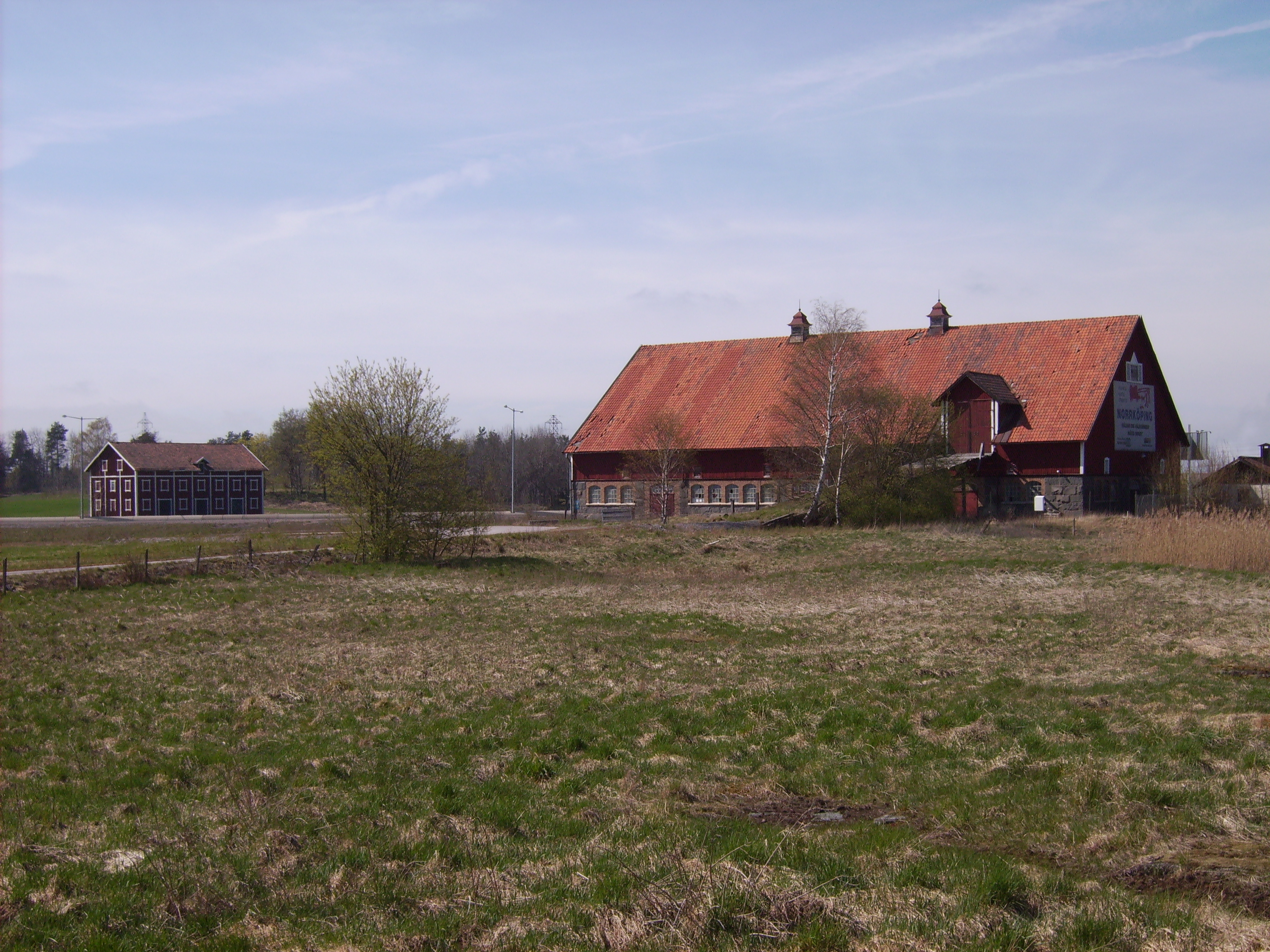 Photo by Harri Blomberg.